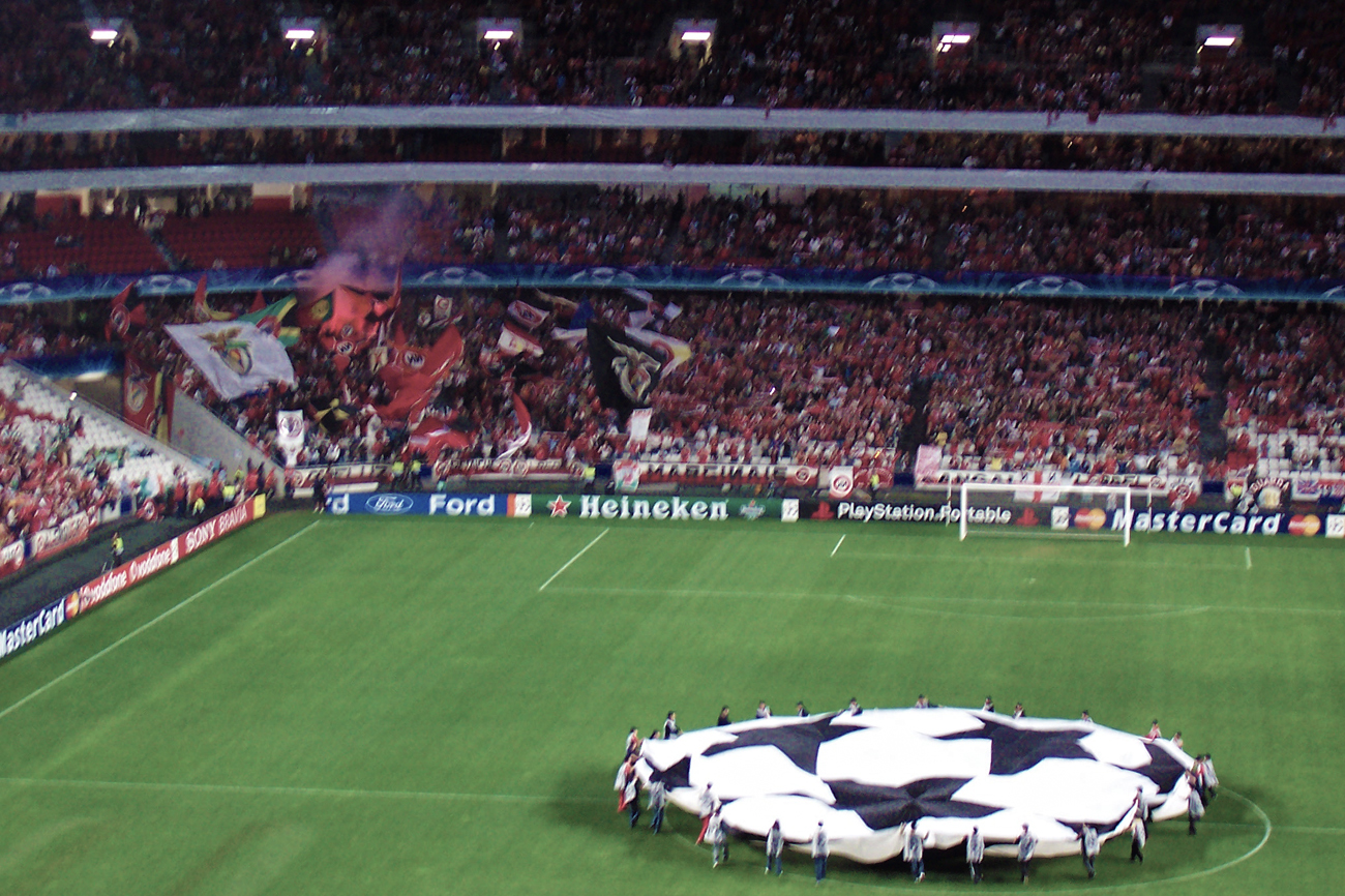 UEFA Champions League game between Benfica and Celtic Glasgow, possibly taken in 1 November 2006